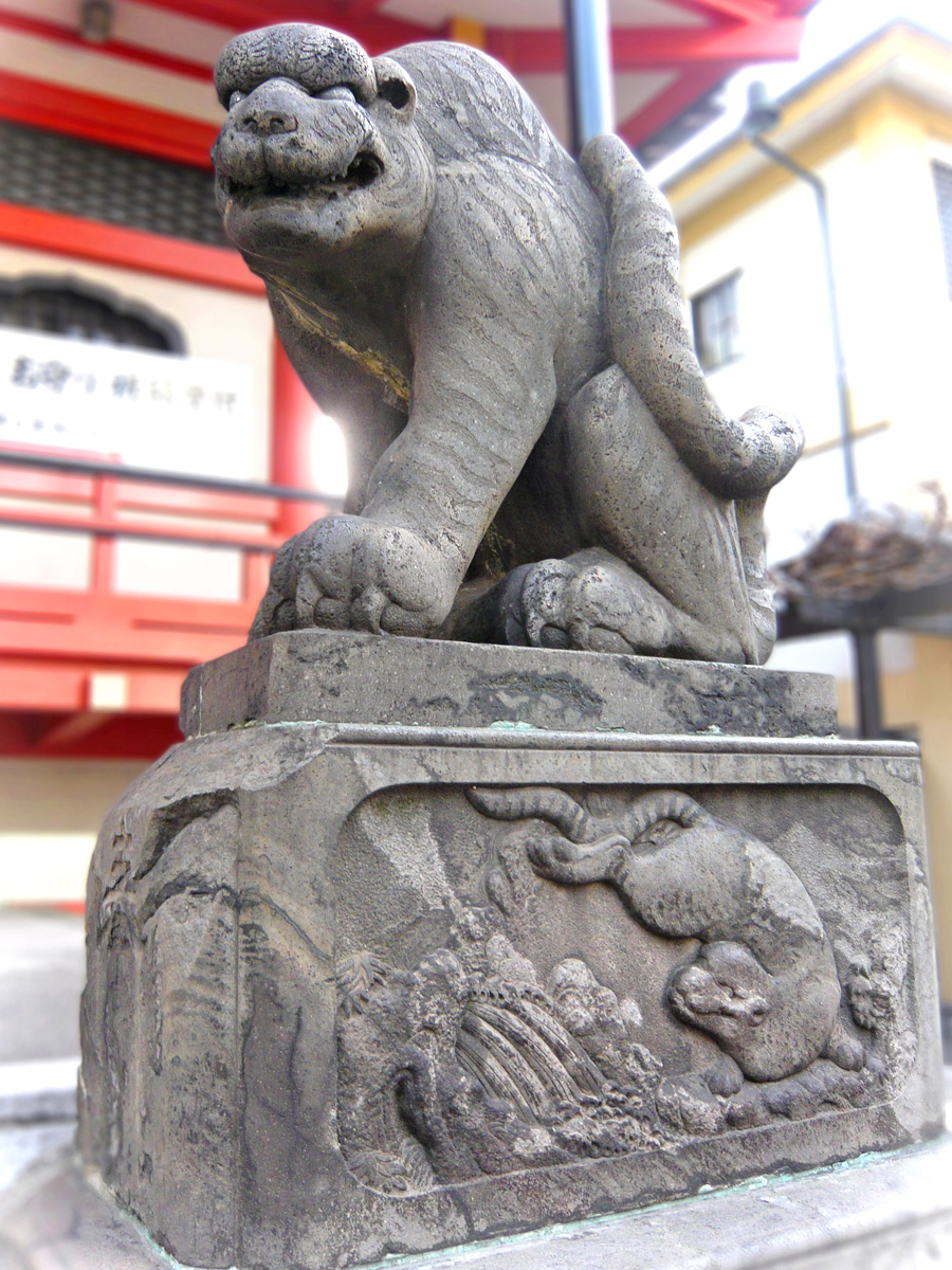 Koma-tora, a pair of statues of tigers, as gate guardians, Agyō (right) - at Zenkokuji temple, in Kagurazaka, Shinjuku,Tokyo,Japan.